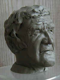 Photo made by me, Angelo F. Coniglio, of a bust of George Blanda, sculpted by myself and currently in my possession, in the American Football League Hall of Fame archives. SugnuSicilianu 01:47, 27 September 2007 (UTC)